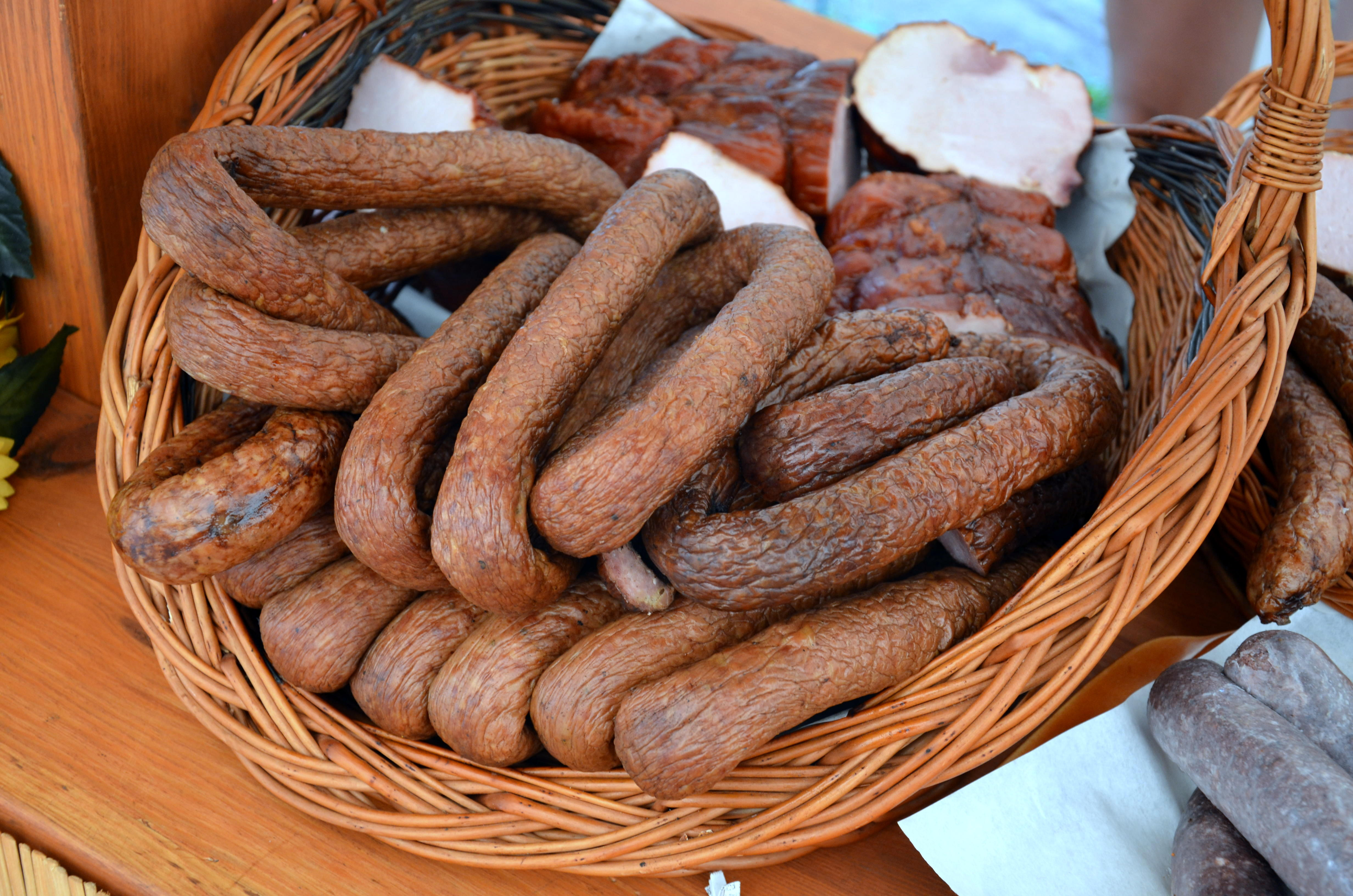 Wurst